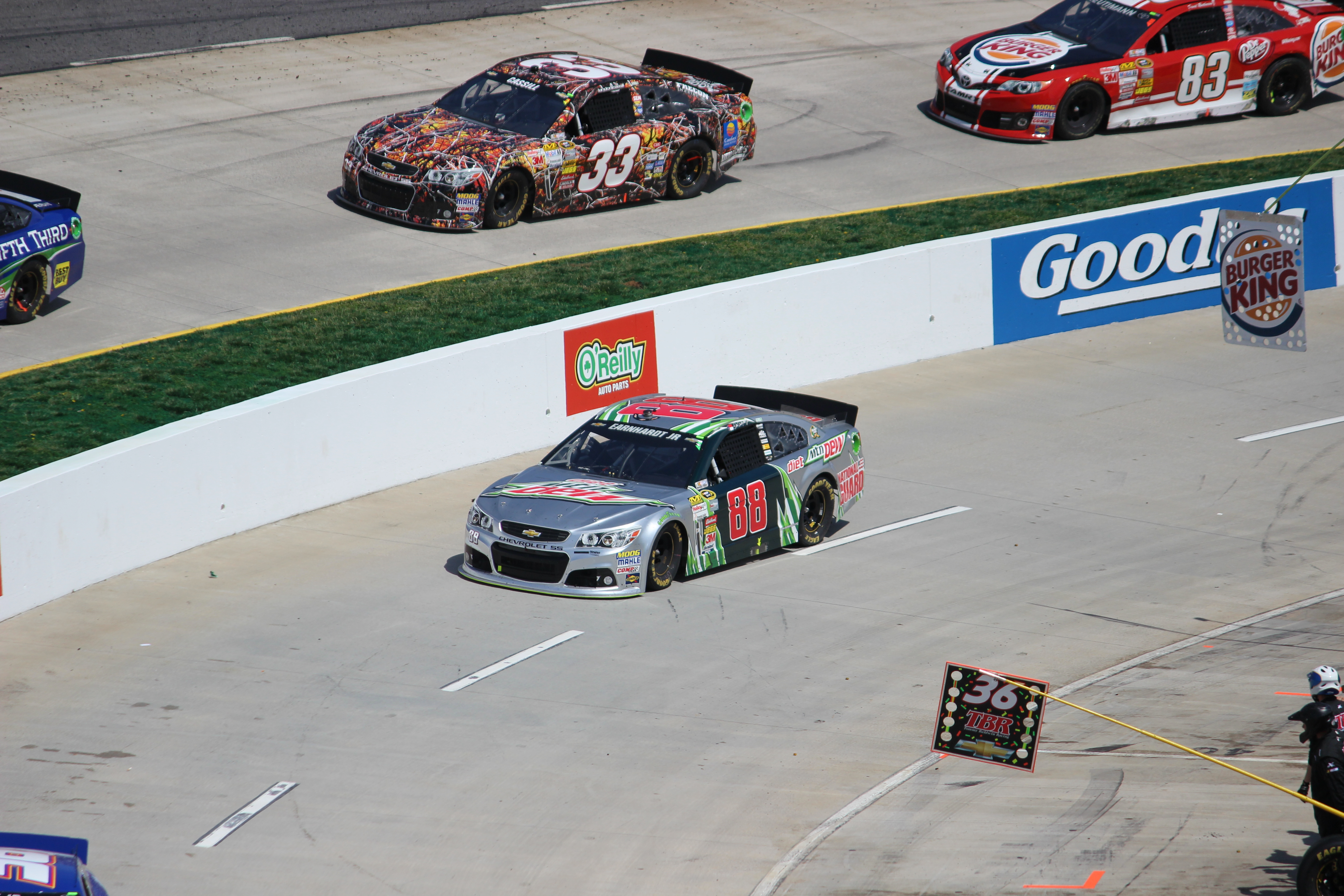 Dale Earnhardt, Jr. during the 2013 STP Gas Booster 500 at Martinsville Speedway. (April 7, 2013)